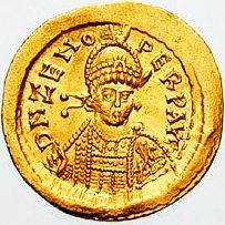 Zeno AV Solidus. Constantinople Mint, D N ZENO-PERP AVG, facing helmeted and cuirassed bust, holding shield, spear behind.